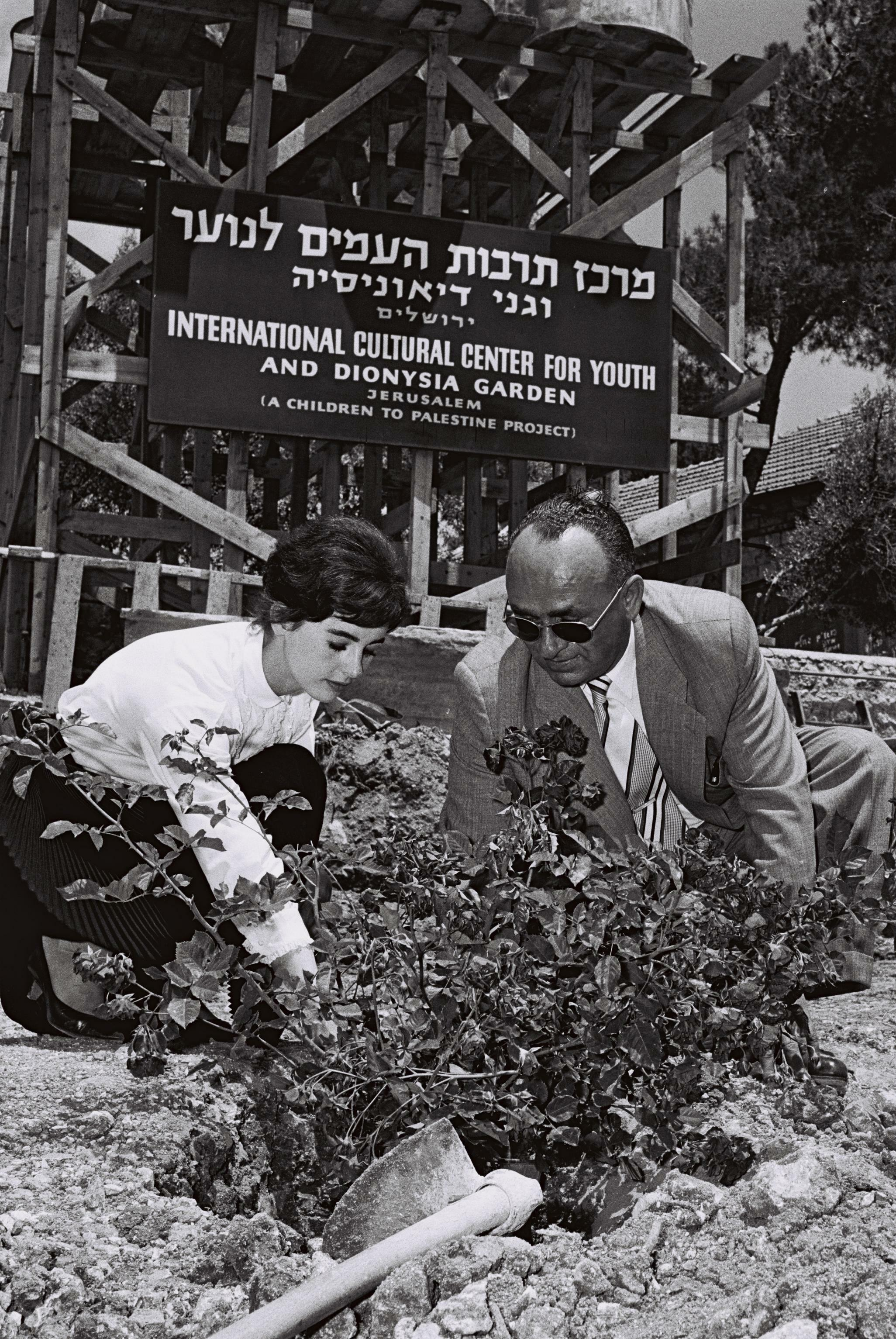 American film and television actress Millie Perkins on a visit to Israel, May 20, 1959